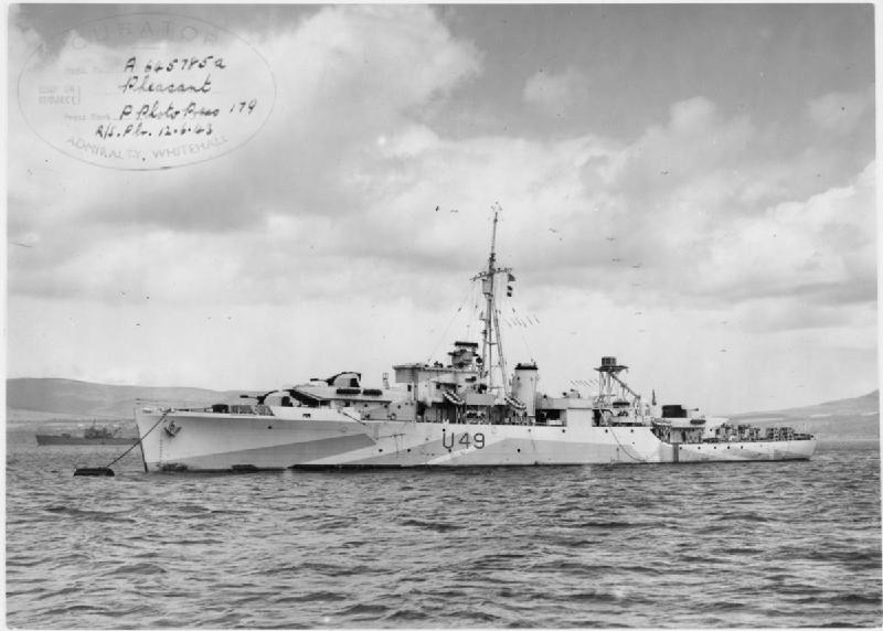 Photograph of British Black Swan class sloop HMS Pheasant (U49) moored at a buoy.